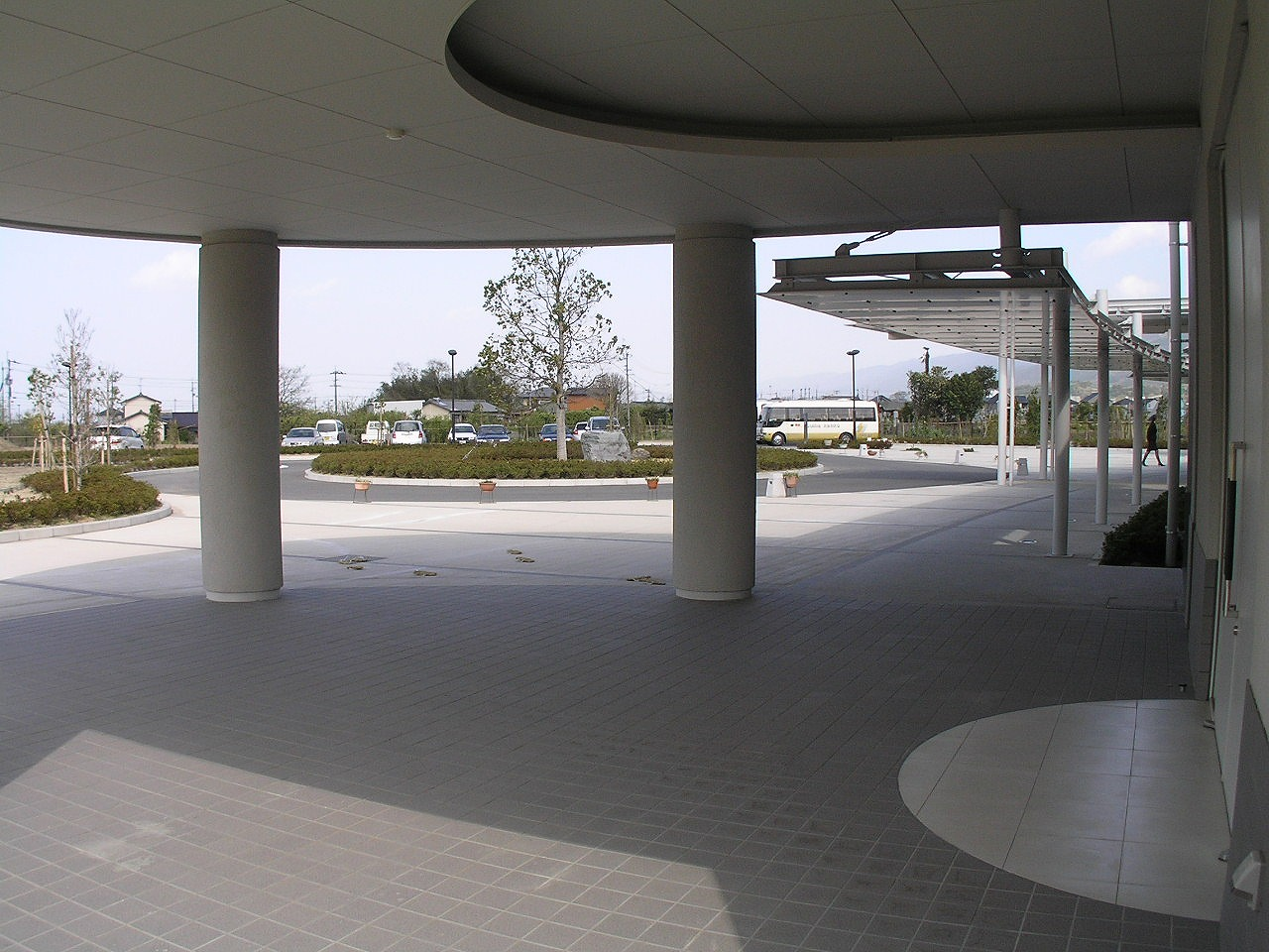 Doi-saien